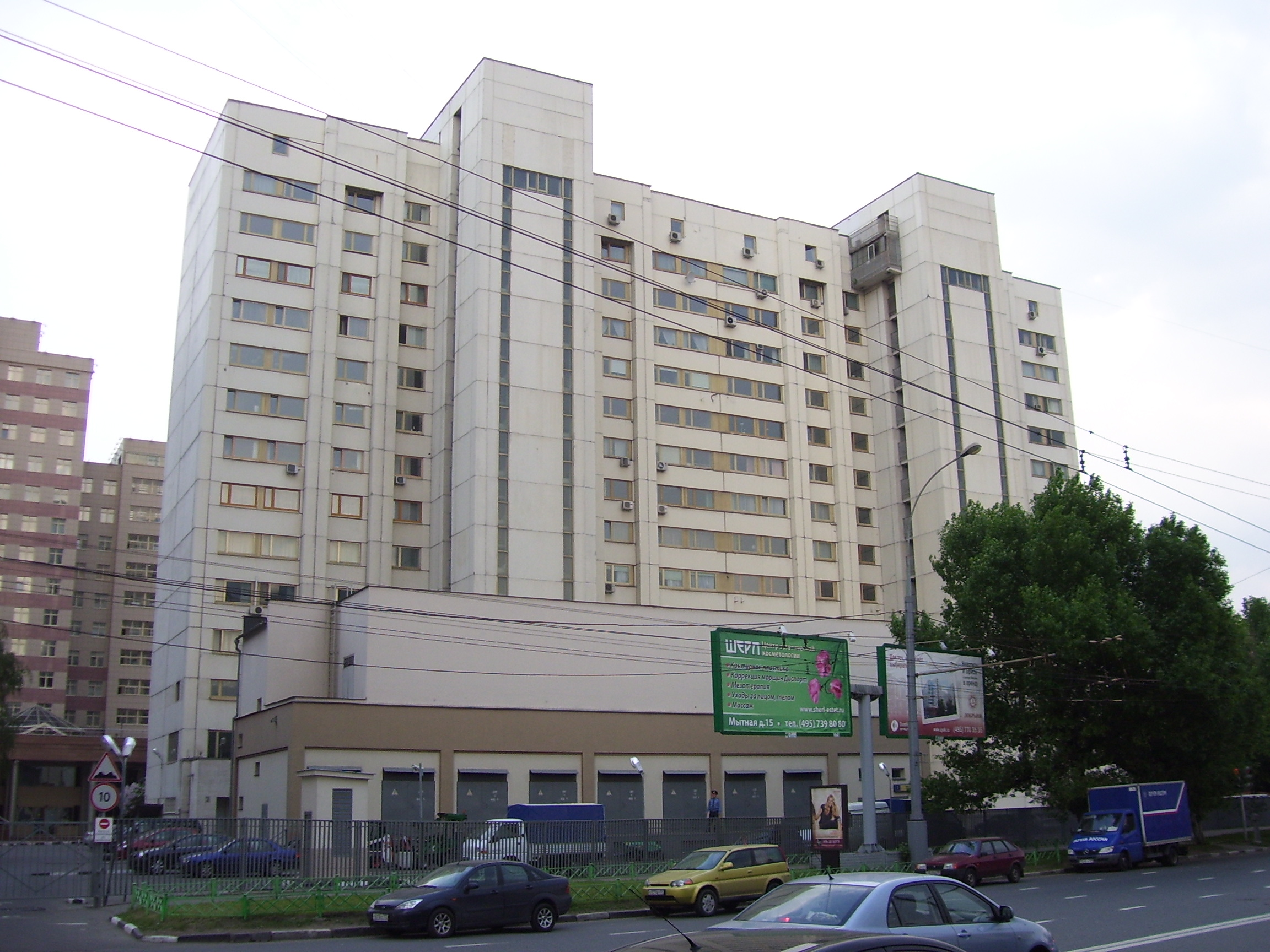 Moscow Mytnaya Street 3: Embassy of Albania, Embassy of Bahrain, Embassy of Montenegro, Embassy of Mozambique, Embassy of Salvador, Embassy of Uganda, Embassy of Uruguay, Embassy of Zimbabwe